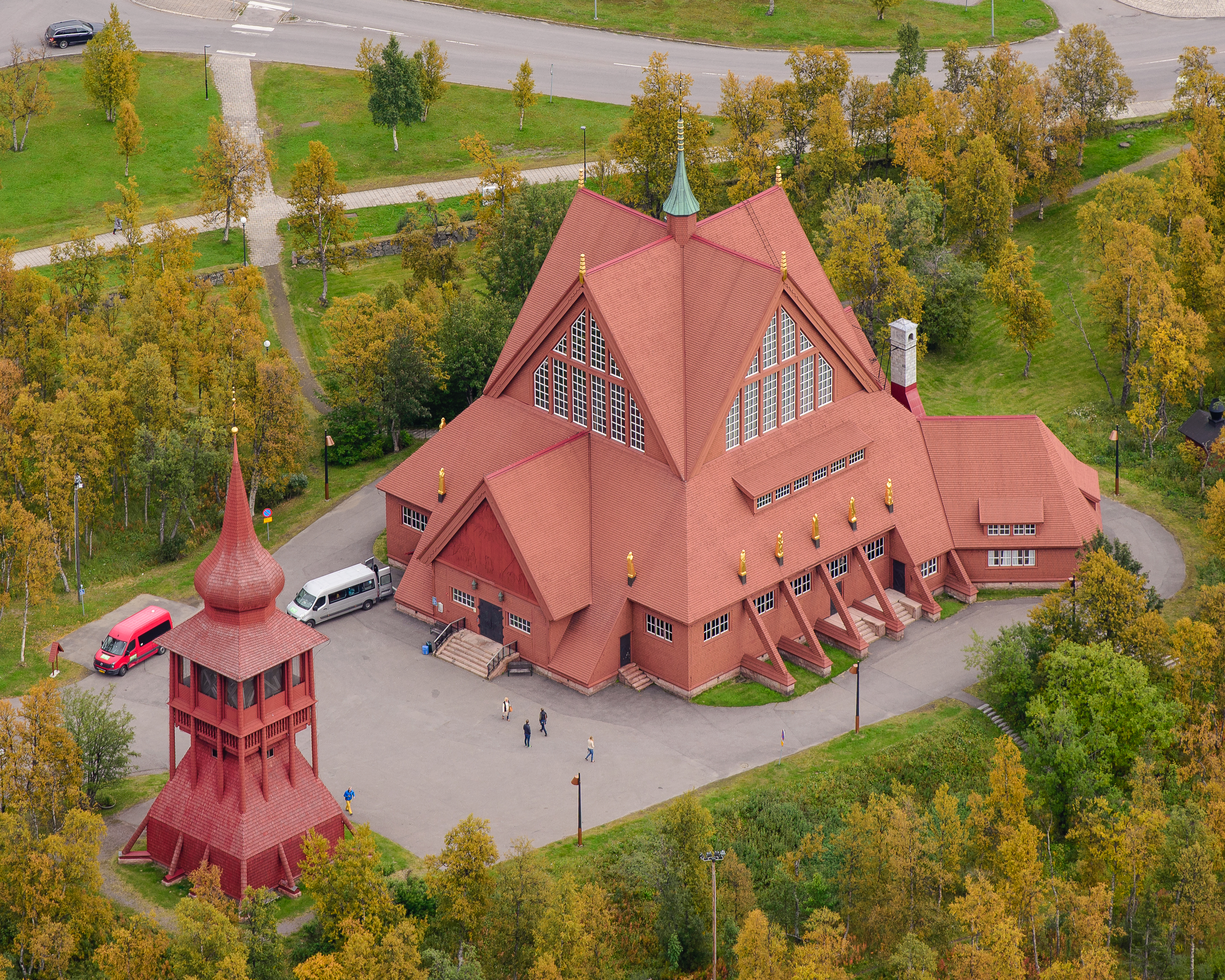 Kiruna Church (Swedish: Kiruna kyrka) is a church building in Kiruna, Sweden, and is one of Sweden's largest wooden buildings. The church exterior is built in a Gothic Revival style, while the altar is in Art Nouveau. The church was built between 1909–1912, and consecrated by Bishop Olof Bergqvist on 8 December 1912. Since 1913, the church is included in the Jukkasjärvi parish in the diocese of Luleå, Church of Sweden.